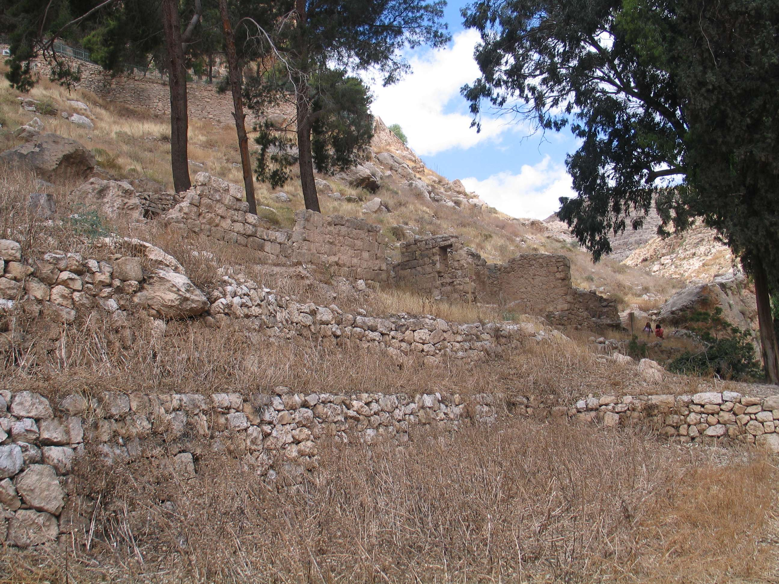 Faran monastery at Ein Prat in Judean Desert.